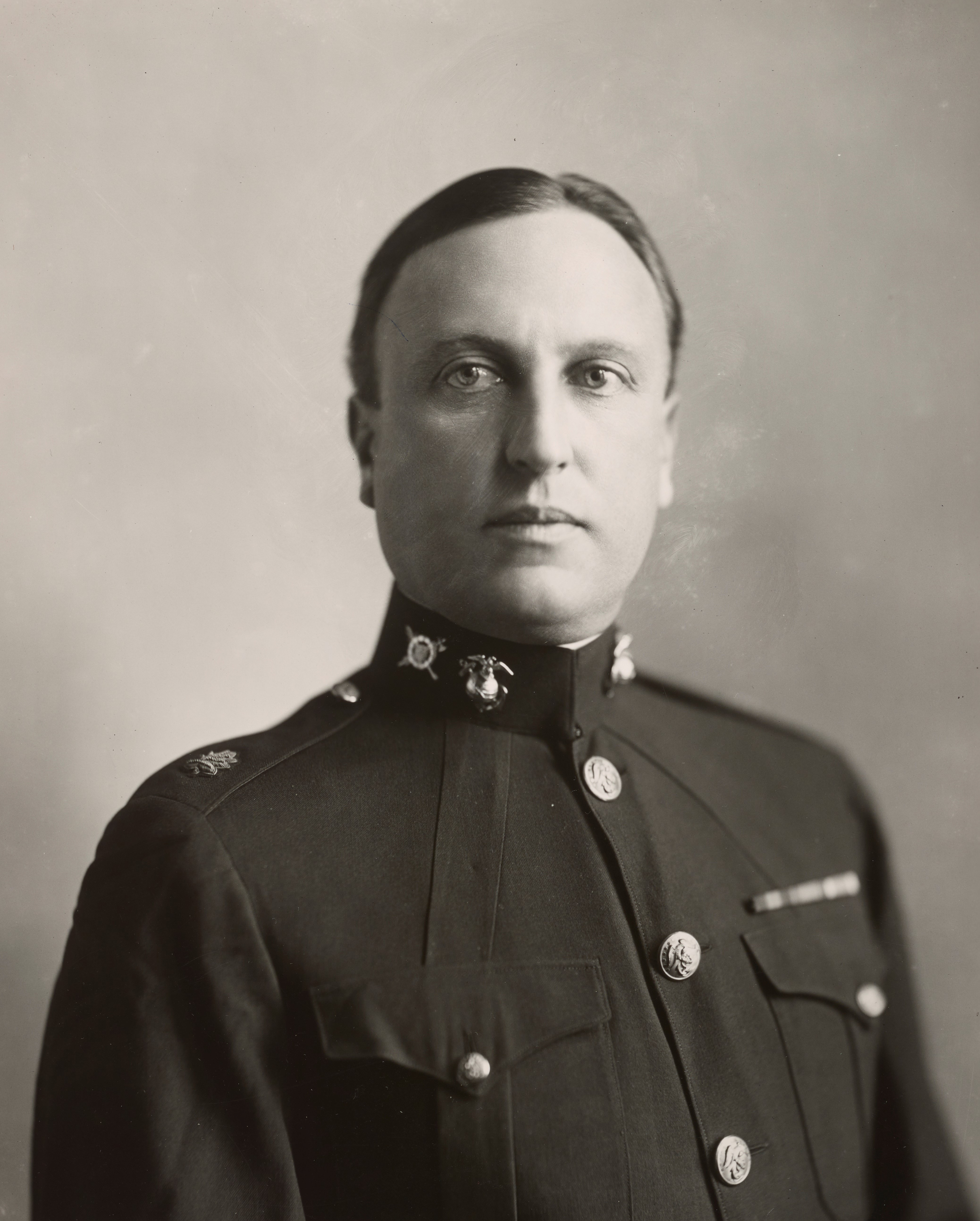 David D. Porter, USMC, Medal of Honor recipient; official USMC portrait